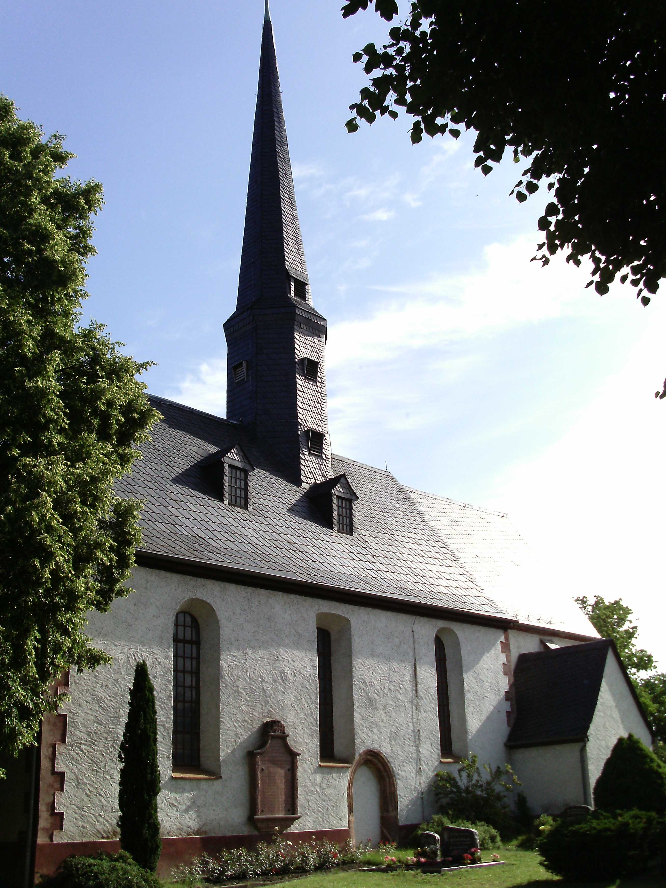 St. Lawrence Church in Neukirchen (Borna, Leipzig district, Saxony)